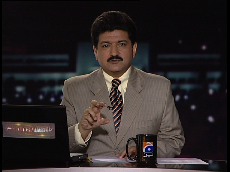 Photo of Hamid Mir in a TV studeo